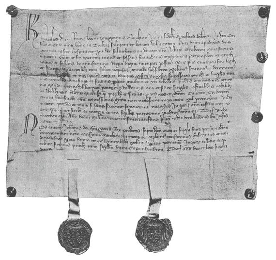 The Charter of 1335, the margrave Karel Třebíč promoted the city.